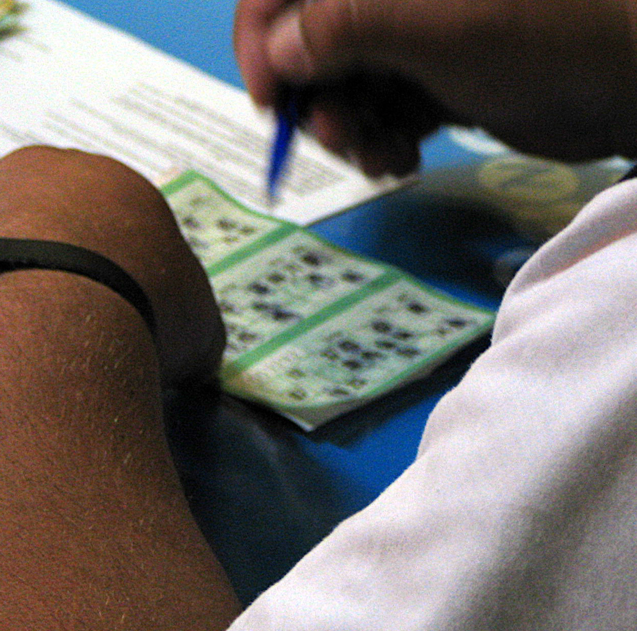 Tombola ticket